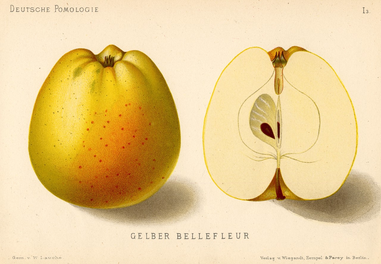 Illustration 3 from Deutsche Pomologie - Aepfel Apple cultivar shown: Gelber Bellefleur